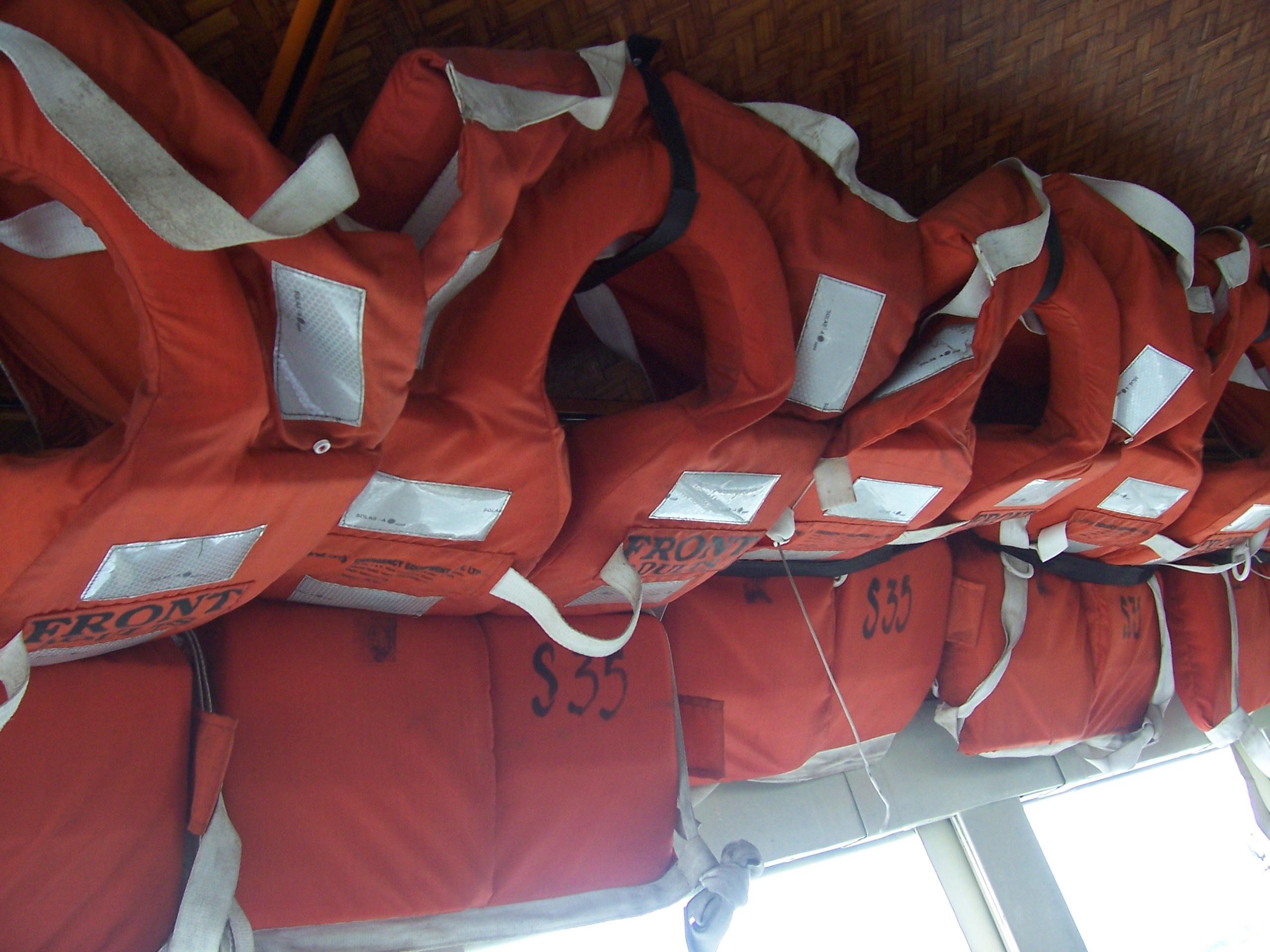 Personal flotation device in a boat at Kochi (India)